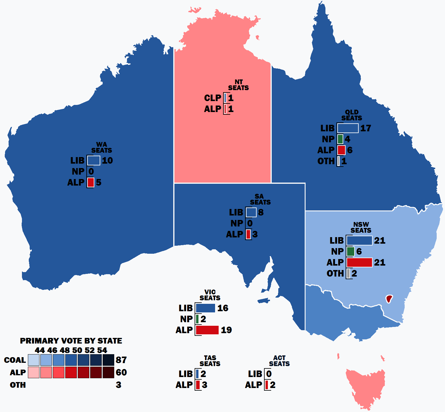 Result of the primary vote by state and territory in the 2004 Australian federal election.